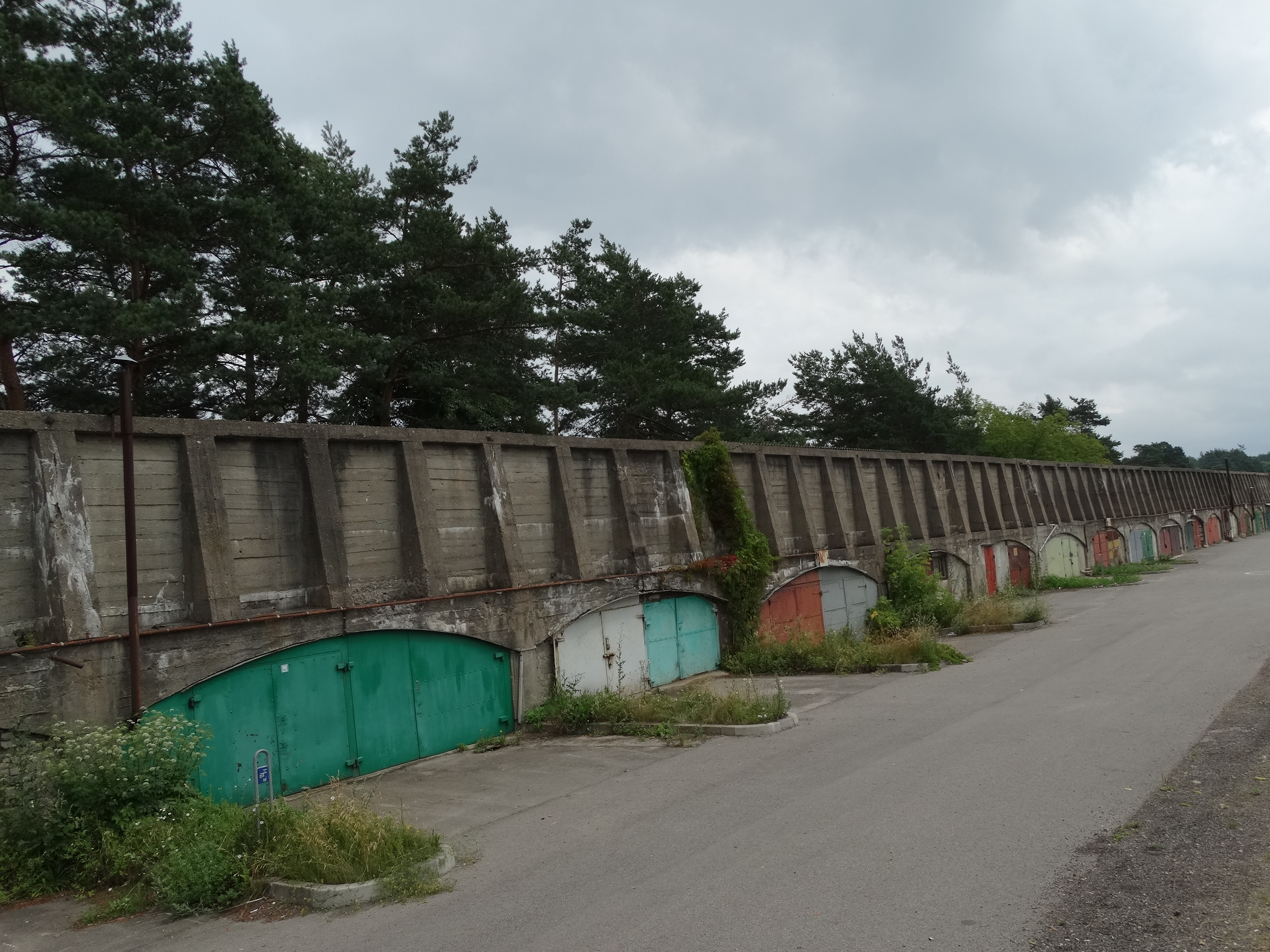 Former aqueduct (water supply), Grigiškės, Lithuania